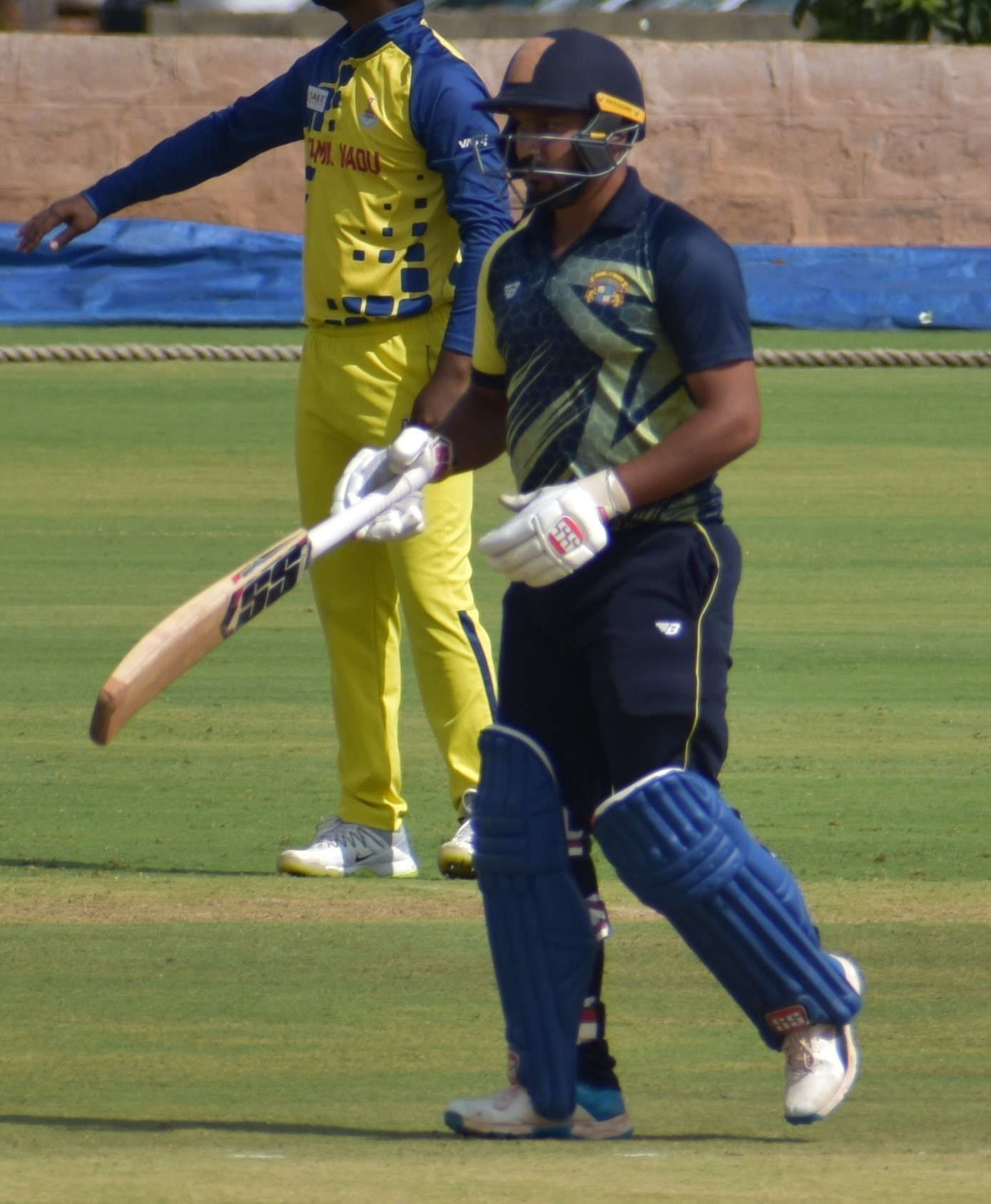 Indian cricketer Anmolpreet Singh during the 2019-20 Vijay Hazare Trophy in Alur, Bangalore.